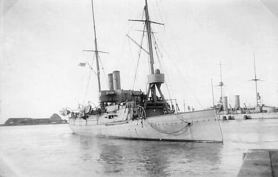 A photo-postcard of the Swedish gunboat HMS Skagul in Karlskrona, 1918.